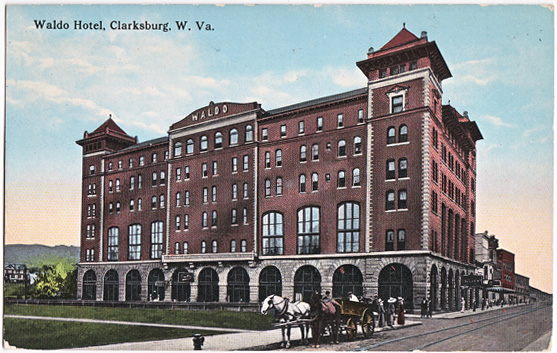 Early photo of the hotel.